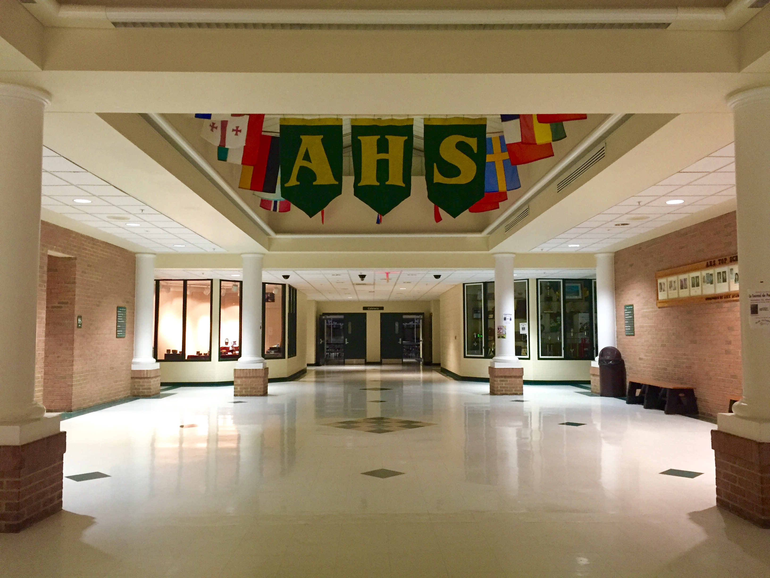 The "atrium" or main lobby area of Athens High School in The Plains, OH.